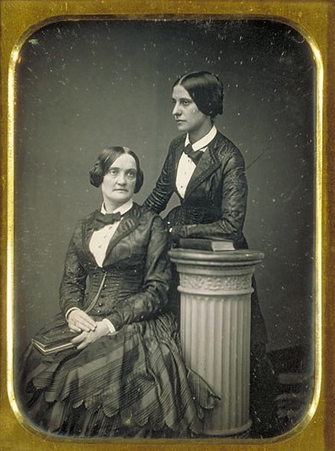 Daguerreotype of actors Charlotte Cushman (1816-1876) and Matilda Hays (1820-1897). Dated 1858 by source. TC-19, Harvard Theatre Collection, Harvard University